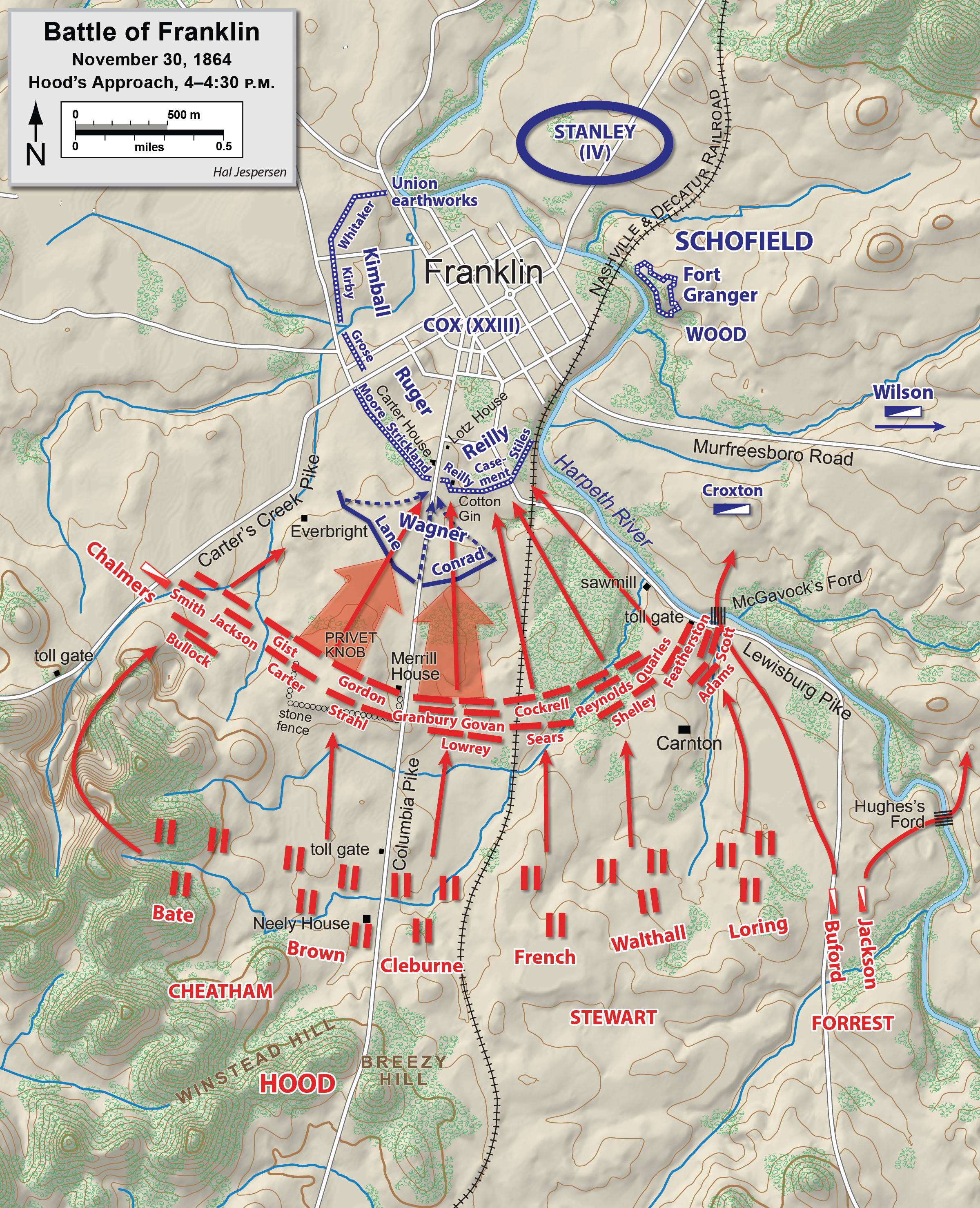 Map of the Battle of Franklin of the American Civil War, showing the approach by Hood's Army. Drawn in Adobe Illustrator CS5 by Hal Jespersen. Graphic source file is available at